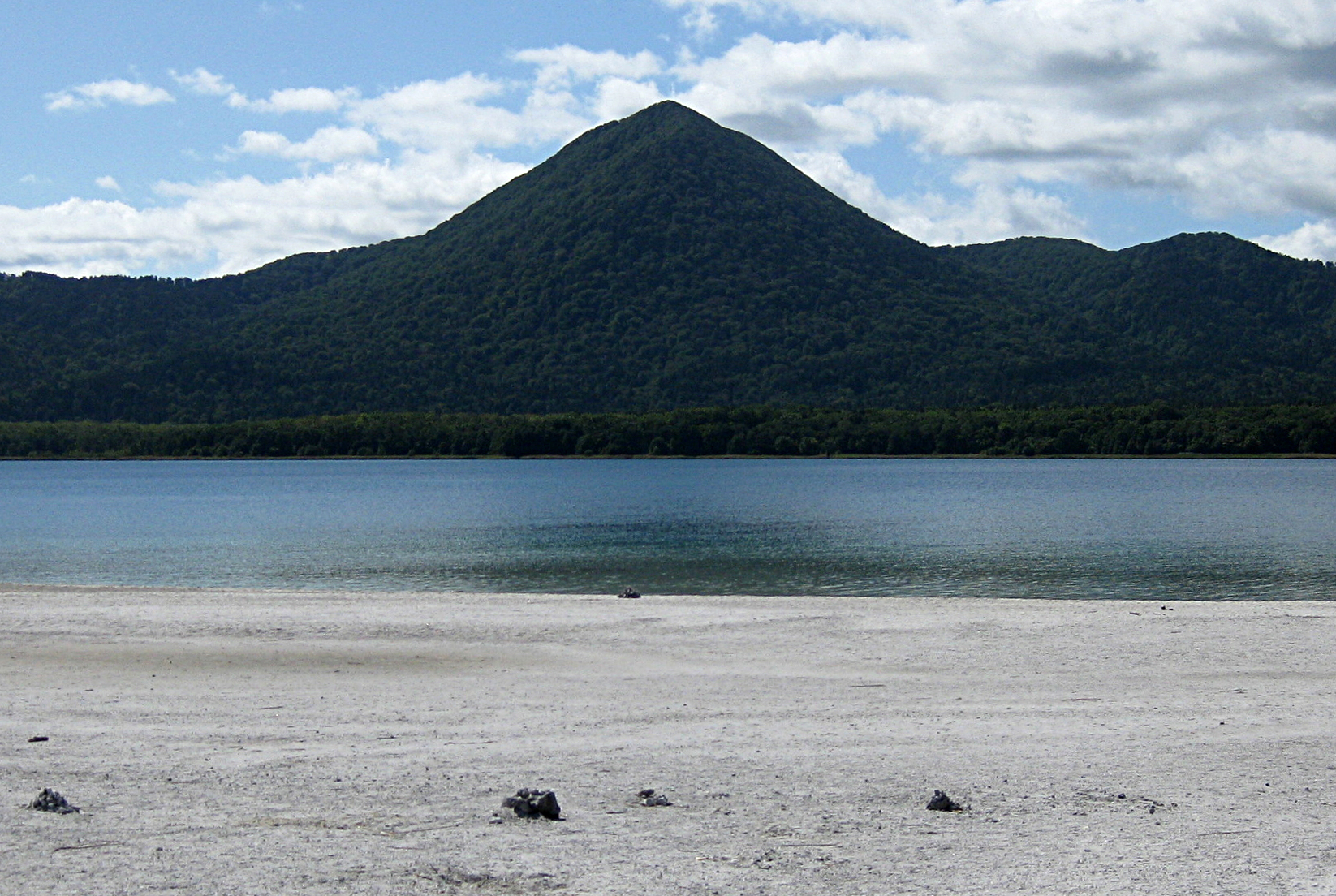 Mount Ozukushi seen from the NNE, in Mutsu, Aomori Prefecture, Japan. Lake Usori in the foreground.